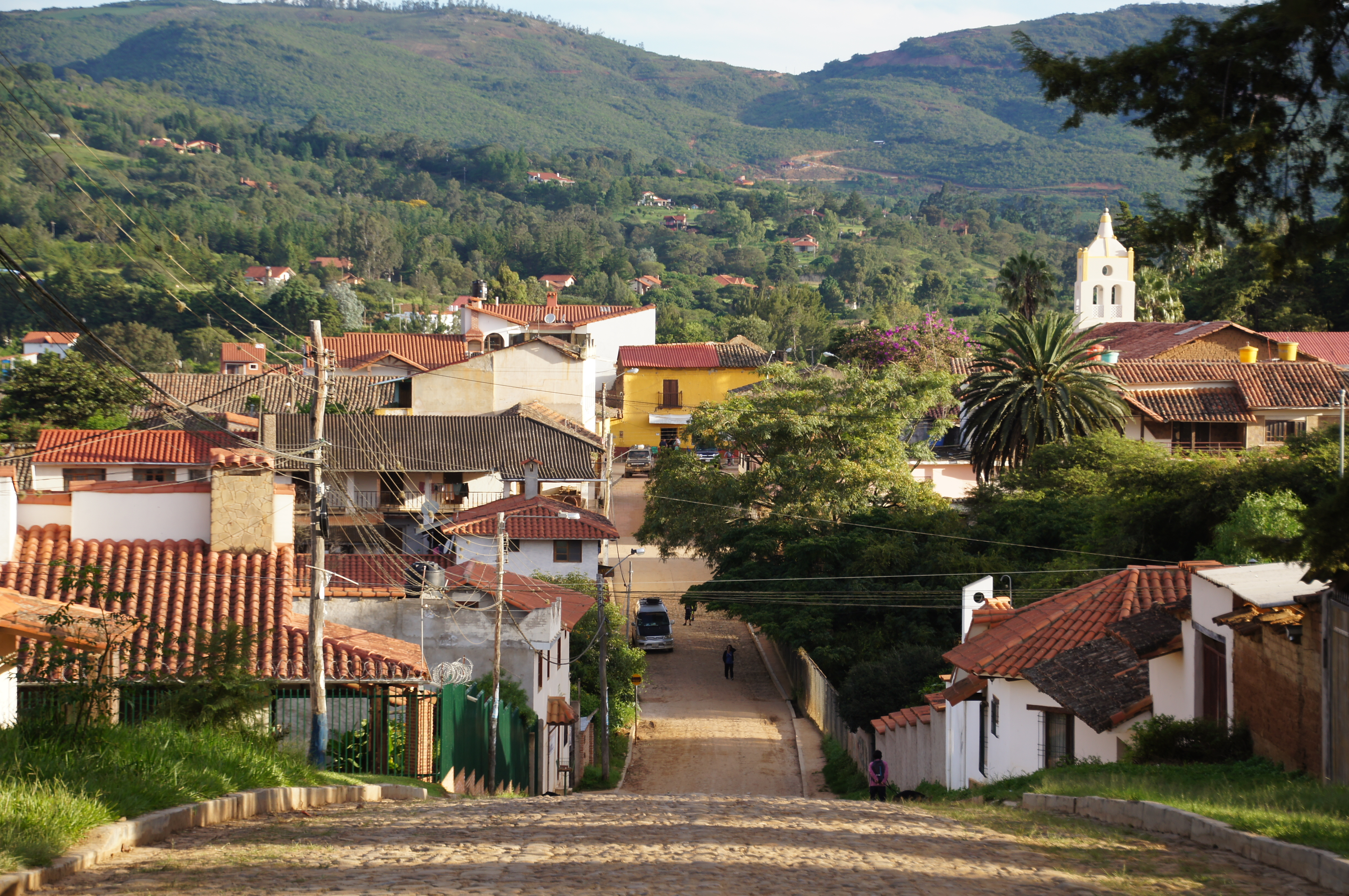 Looking towards downtown Samaipata, Bolivia in the early morning light.